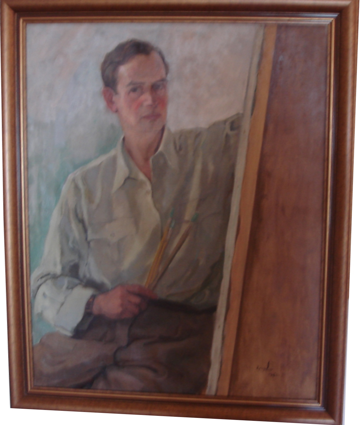 Self Ukrainian Transcarpathian artist Adalbert Erdelyi Mikhailovich